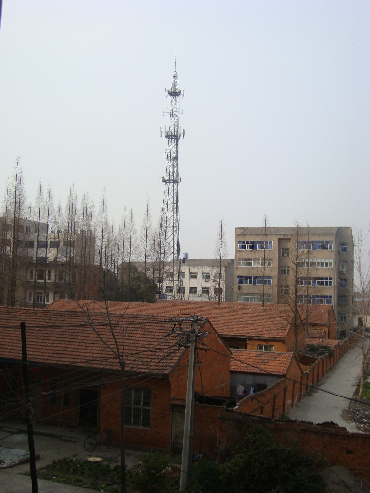 镇政府 own government